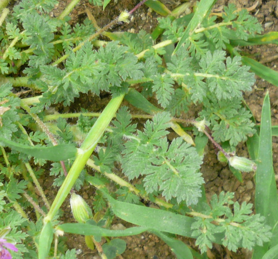 Leaves of Erodium cicutarium, Barcelona, Catalonia